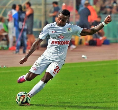 Quincy Promes